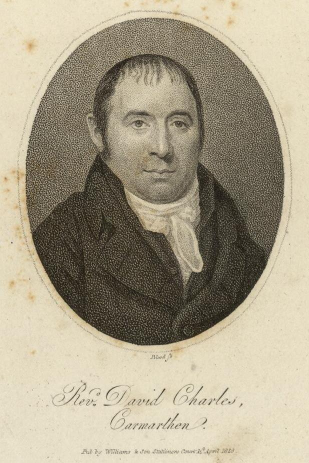 A portrait from the Welsh Portrait Collection at the National Library of Wales. Depicted person: David Charles – British hymn writer (1762–1834)